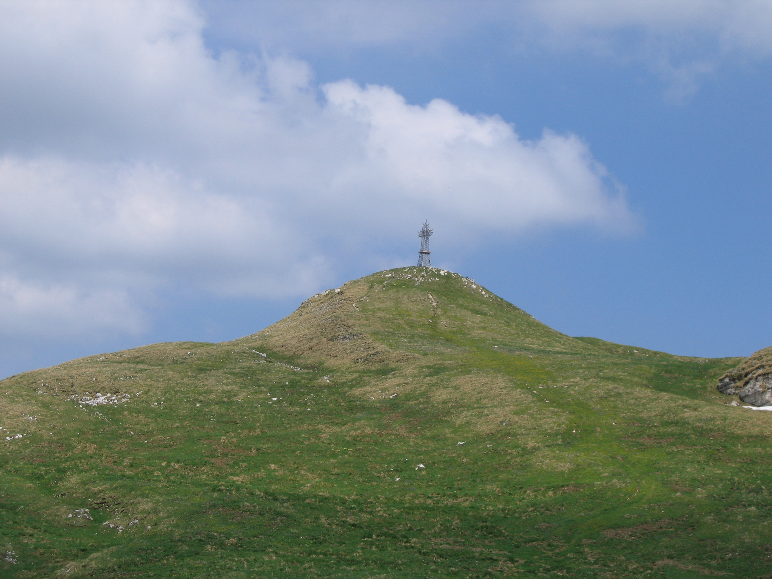 Le Reculet – top